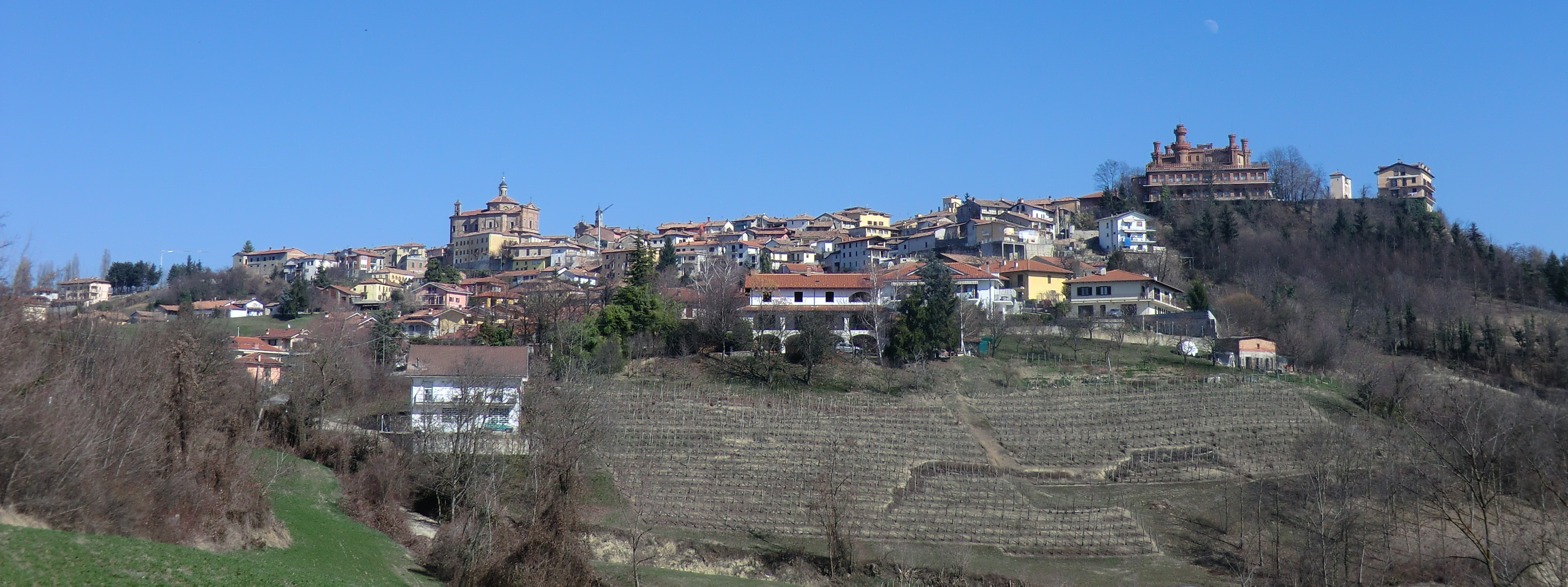 Novello (Cuneo - Italy): landscape